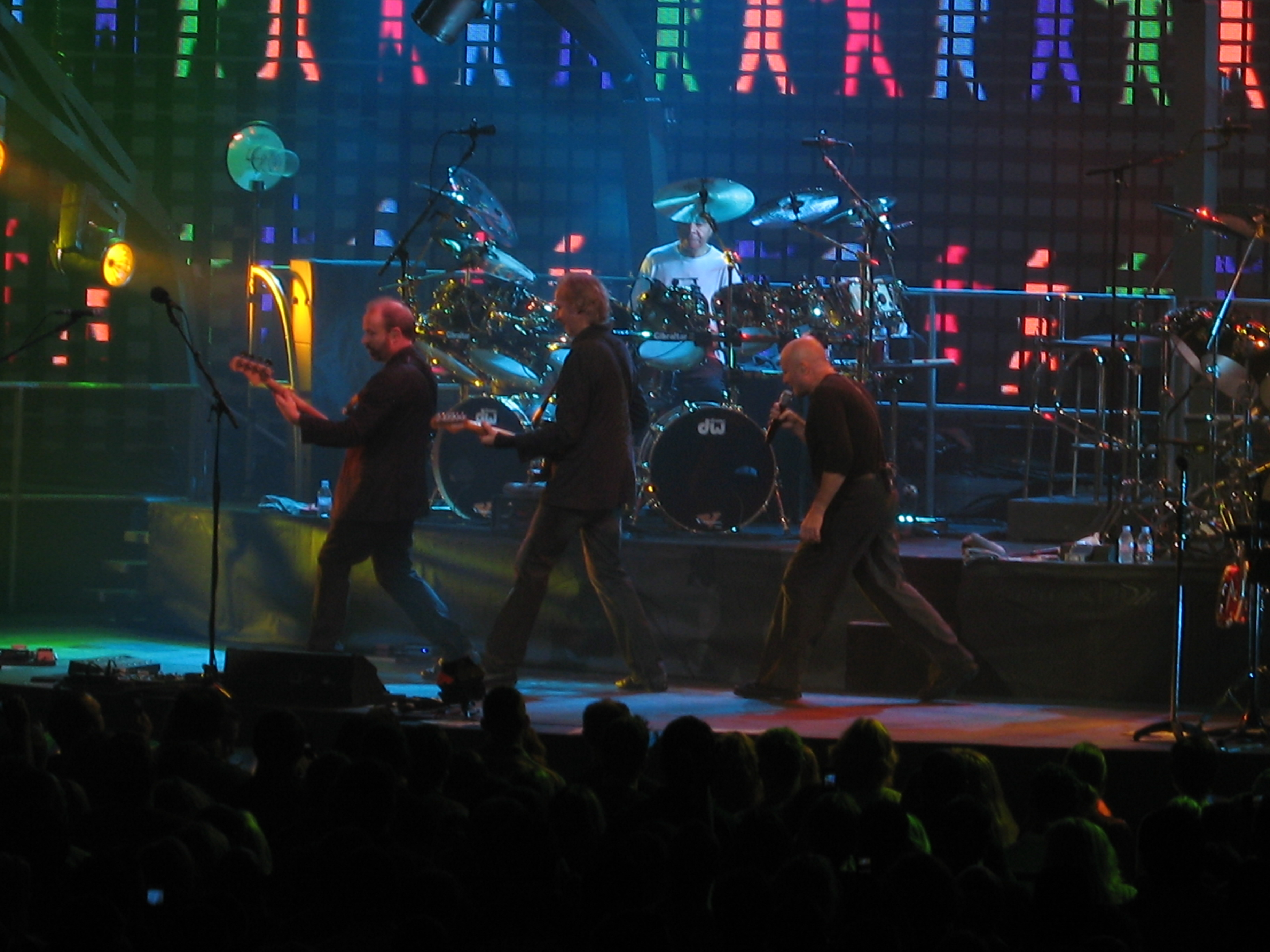 Genesis concert at the Wachovia Center, Philadelphia, Pennsylvania, USA. Performing "I Can't Dance".